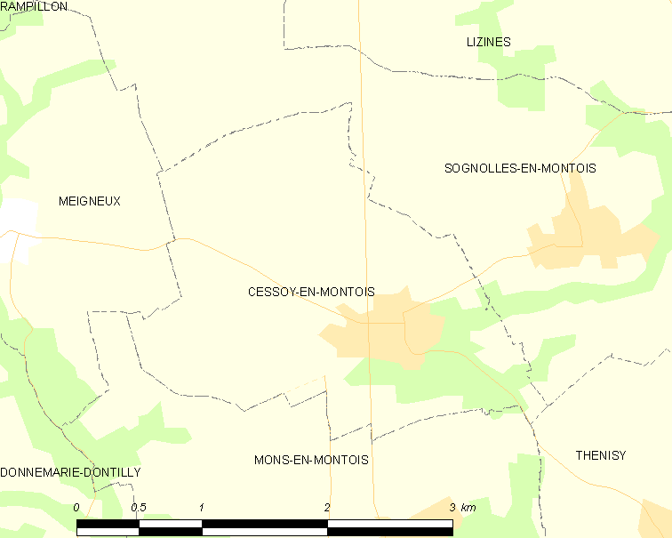 Map of French municipality Cessoy-en-Montois